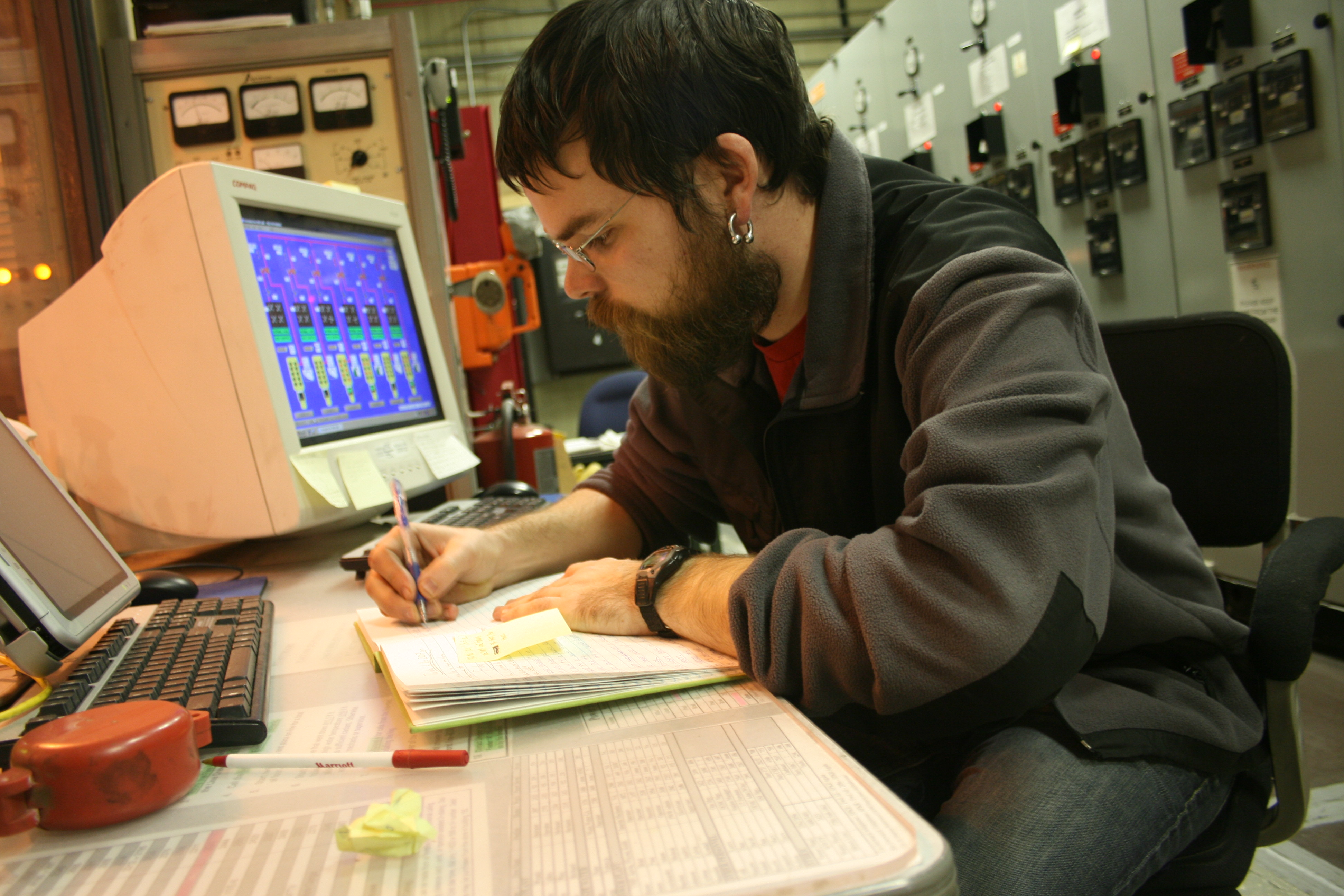 McMurdo Station Power Plant, Antarctica